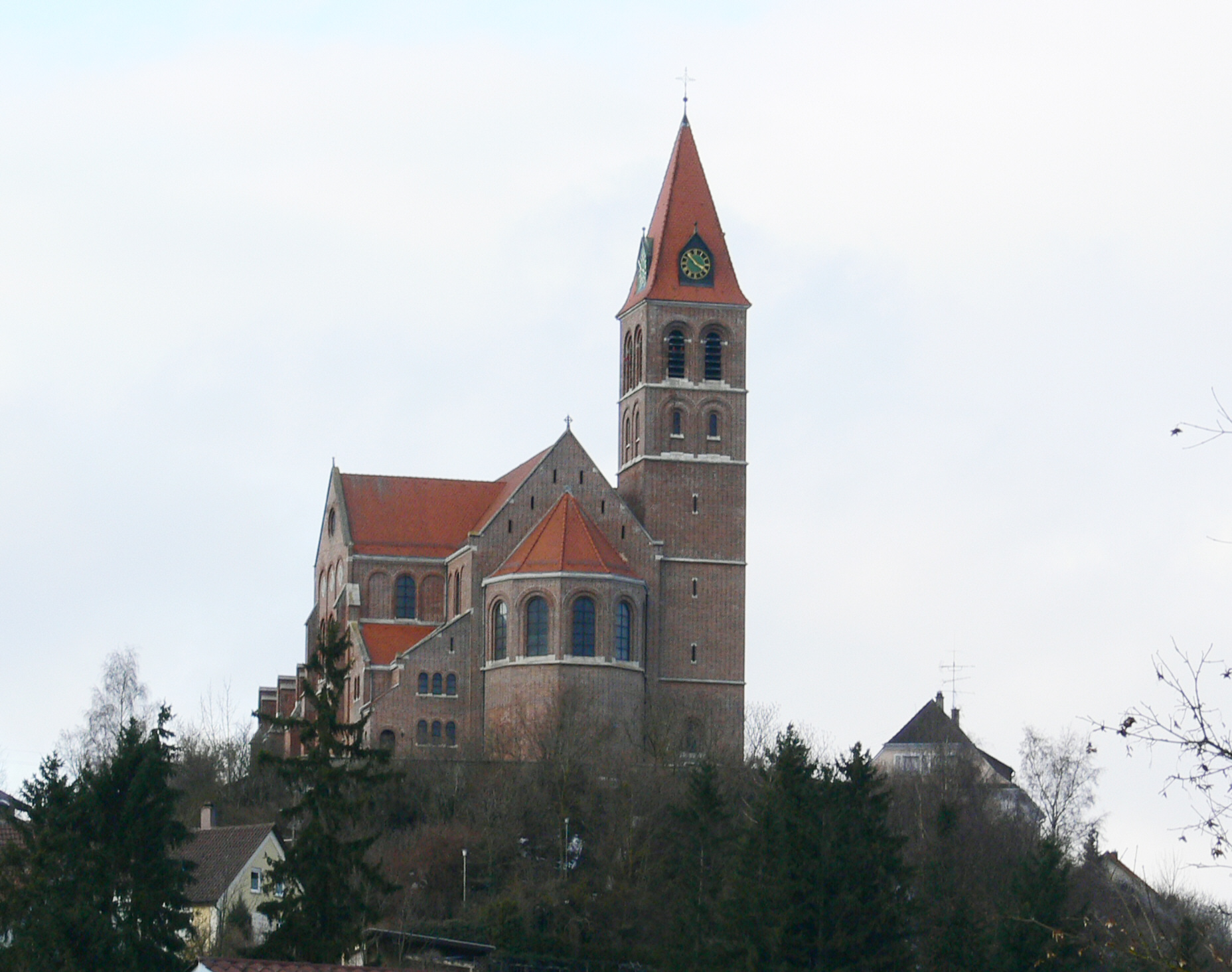 Pfarrkirche St. Martin, Hundersingen; erbaut 1905 von Joseph Cades Joseph Cades (1855–1943) DescriptionGerman architectDate of birth/death15 September 185531 May 1943Location of birth/death(Schemmerhofen-)AltheimStuttgartWork locationStuttgartAuthority control : Q1706718 VIAF: 8242279 ULAN: 500229166 GND: 12142734X